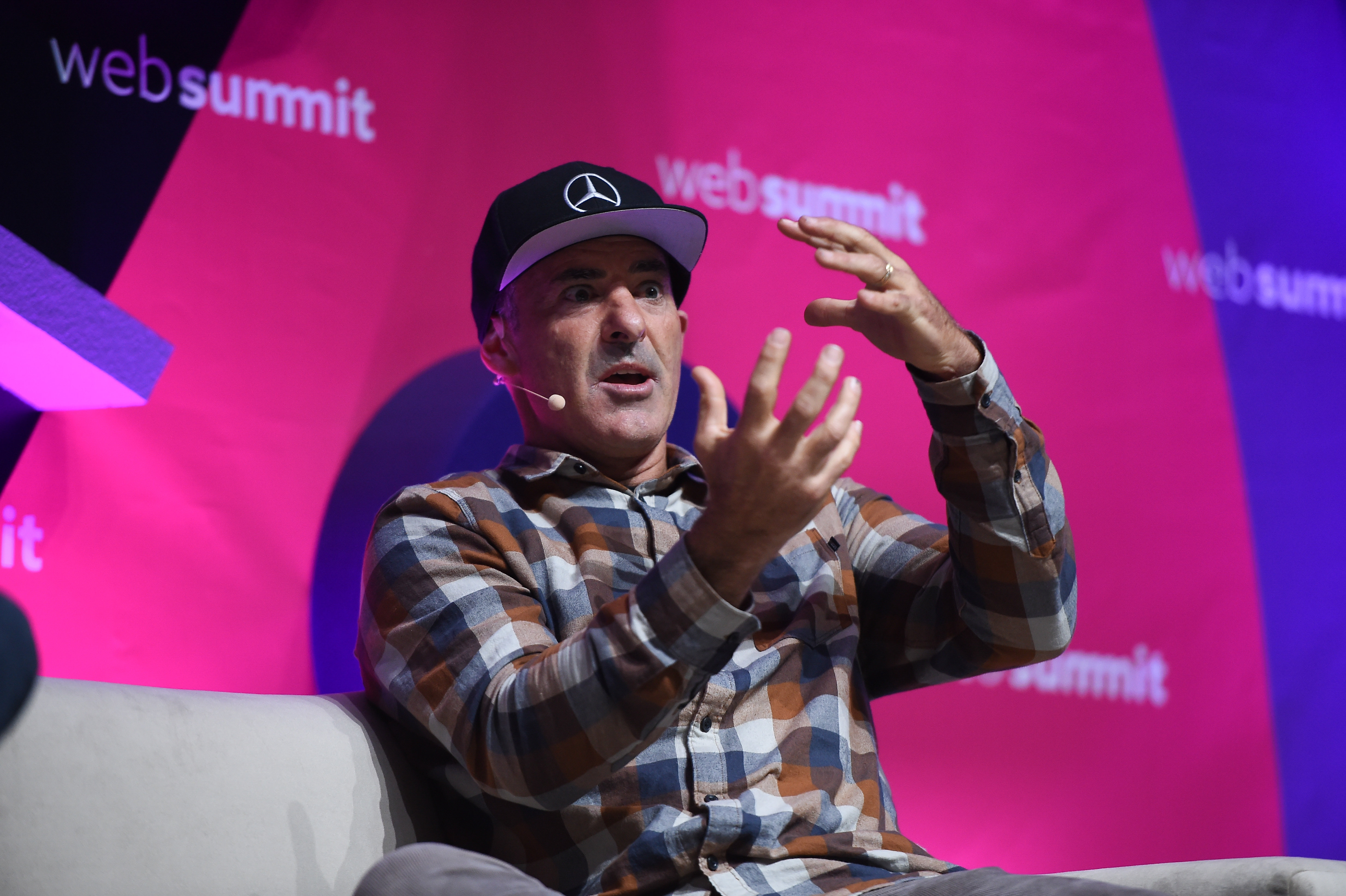 7 November 2017; Garrett McNamara, Big Wave Surfer, on the SportsTrade Stage during the opening day of Web Summit 2017 at Altice Arena in Lisbon. Photo by Cody Glenn/Web Summit via Sportsfile